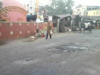 Garfa Shiv Mandir Bazar - an area is south Kolkata